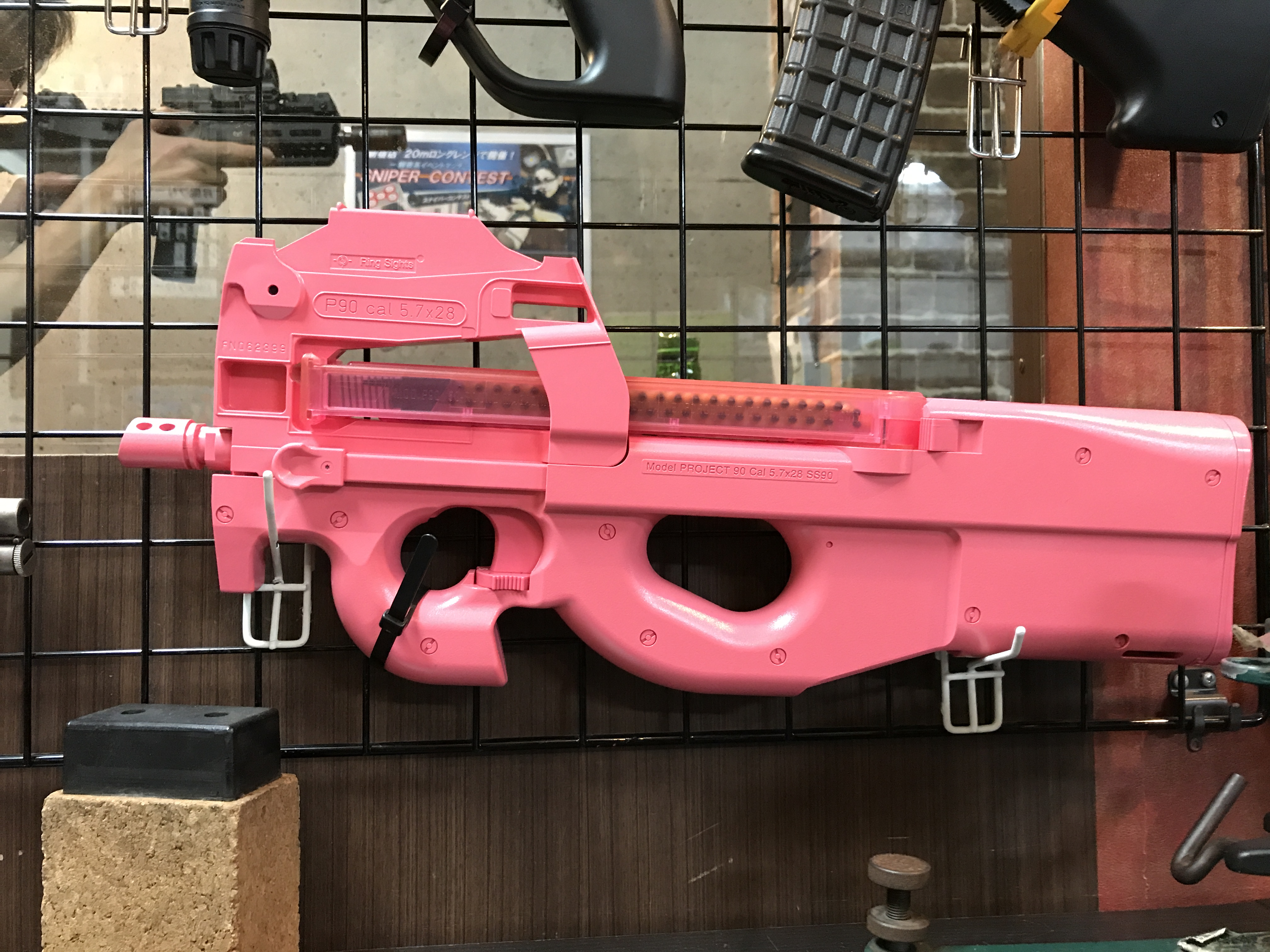 A Tokyo Marui P90 in pink camo finish inside Target-1 in Akihabara. This was made in part to promote the anime version of Sword Art Online Alternative Gun Gale Online.